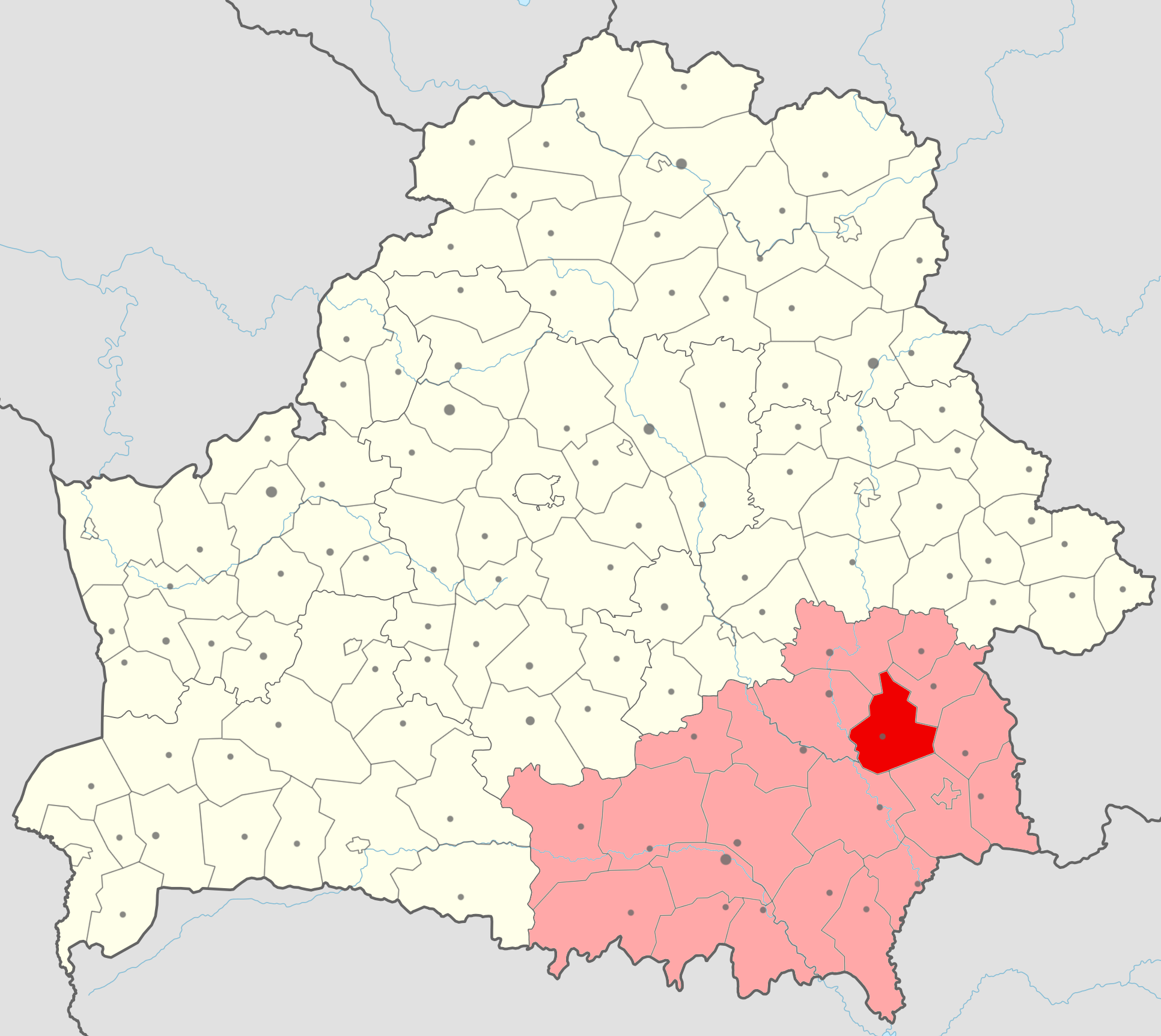 Location of Buda-Kašalioŭski rajon (red) in Homieĺskaja voblasć (light red) in Belarus.